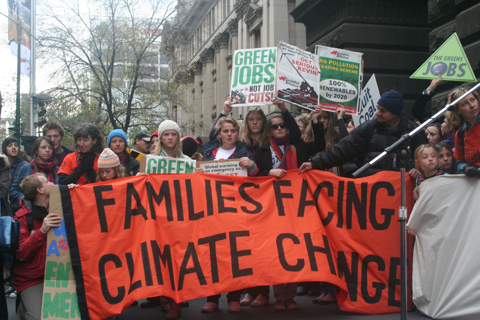 On June 13, 2009 thousands of people rallied for action on Climate Change. On a cold and bleak Melbourne winter day thousands gathered at the State Library where they heard from Greens Senator Bob Brown and 'Climate Codered' author and climate activist David Spratt, and other speakers. Leaving the State Library, people marched down Swanston Street to the front of the Melbourne Town Hall where the crowd was asked to do a sitdown protest. Inside the Town Hall the Victorian State Conference of the Australian Labor Party was meeting. A woman from Tuvalu spoke on the rising seas threat to her country and other low lying nations. Damien Lawson, National Climate Change Co-ordinator for Friends of the Earth spoke on the need for a campaign of popular civil disobedience if politicians continue taking no action or ineffectual action to rapidly decrease carbon emissions. The march then continued to Treasury Gardens. See Videos of speeches outside the Town Hall and in the Treasury Gardens at Engagemedia or on my Youtube channel: * Climate Emergency: Damien Lawson calls for Civil Disobedience Campaign for action on Climate Change * Climate Emergency: thousands march in Melbourne calling for action Image used by Ecoreport in republishing David Suzuki Foundation story from July 10, 2014 on this webpage